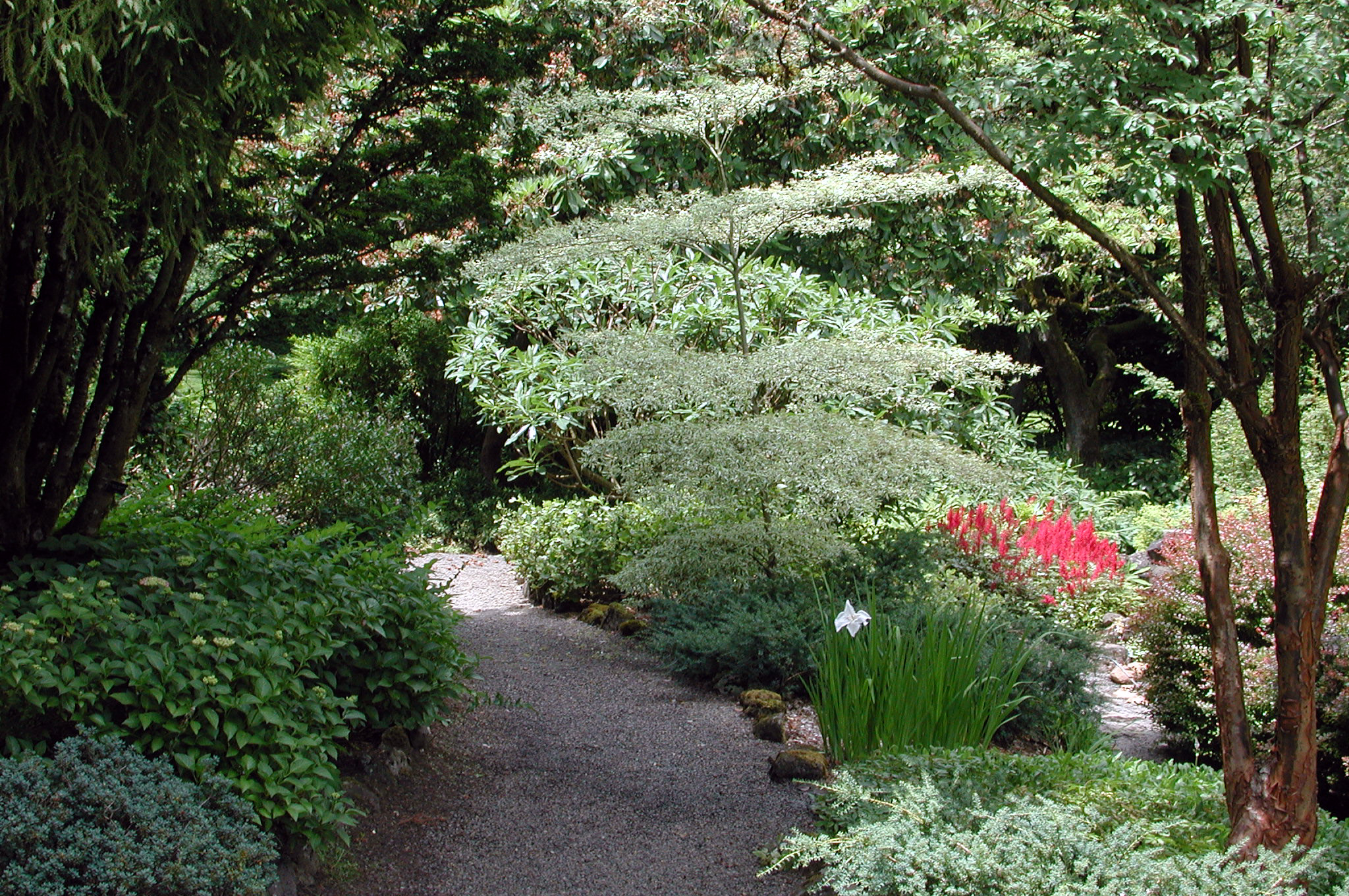 Path in the Cascades segment of the Elk Rock Gardens of the Bishop's Close in Dunthorpe, Oregon, near Portland. View is to the west.